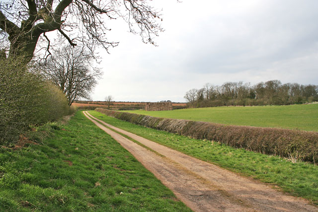 Long Hollow near Braceby This old country road follows the line of a Roman road, King Street, from Northampton via Bourne, TF0921 in the south to Ermine Street in SK9742, near Ancaster. This part of the route is a metalled road but some of it is a rough track or just footpaths. There is evidence of 3rd and 4th century pottery kilns at Bourne and this was an old trading route to the main London to York thoroughfare of Ermine Street.